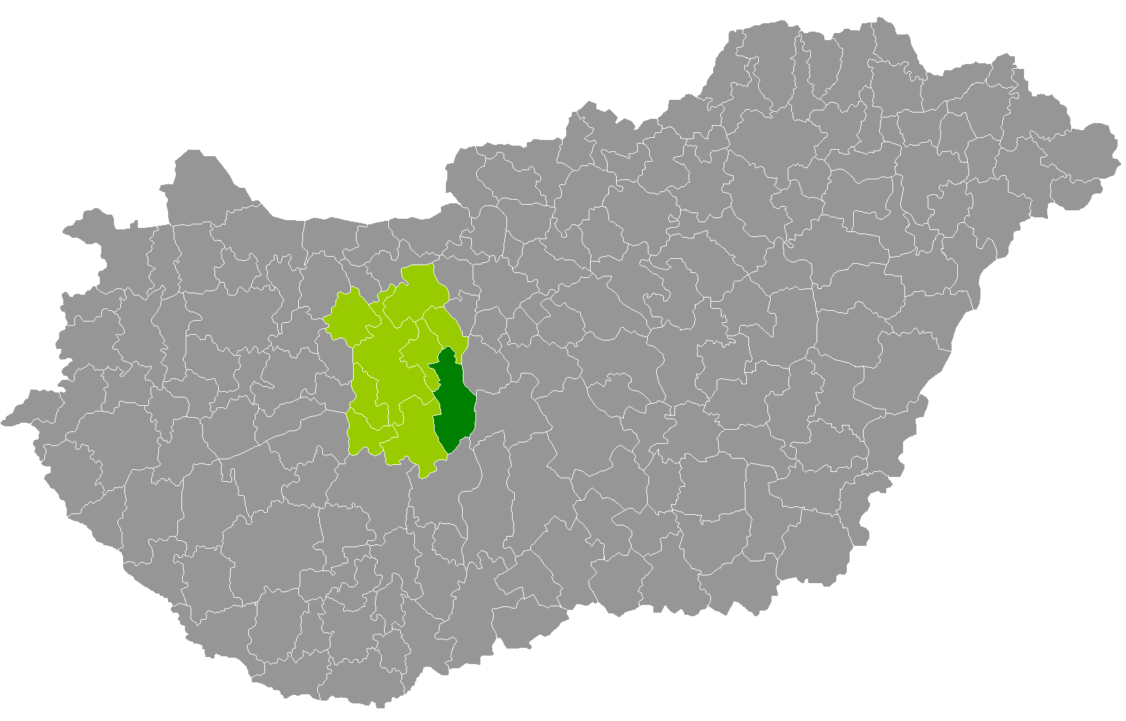 Location of Dunaújváros District, Fejér, Hungary